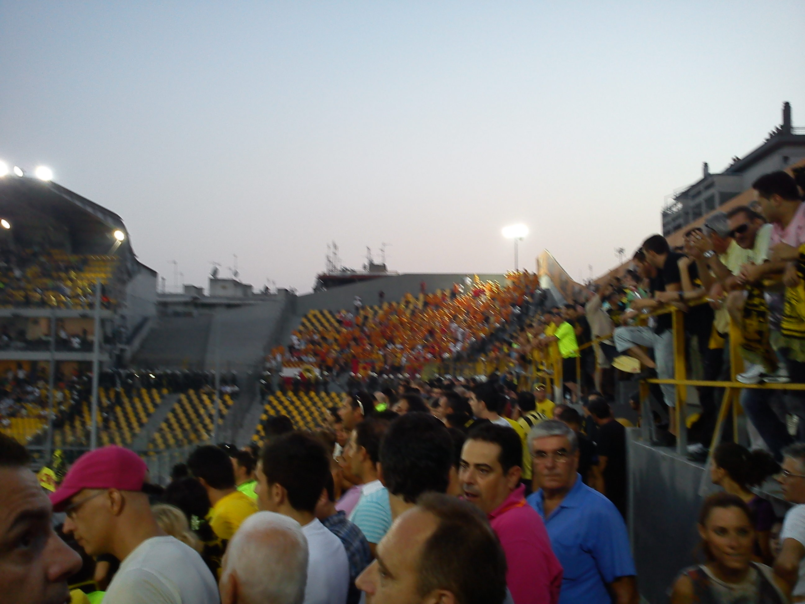 Jagiellonia Białystok fans (background), Aris FC - Jagiellonia (05/08/2010).